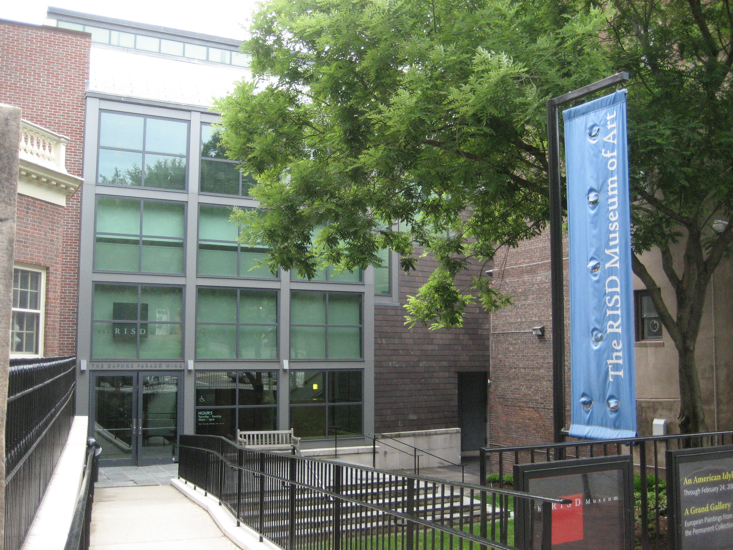 Providence, Rhode Island. Entrance to Rhode Island School of Design art museum